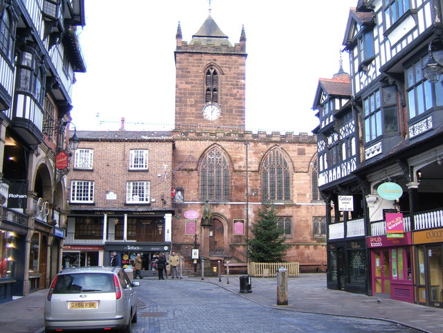 Photograph